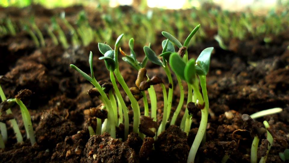 these are leafy vegetables in India.this is pretty vegetables for Indians.